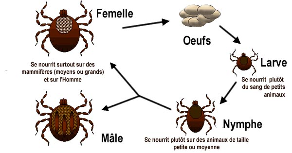 Deer Tick life cycle diagram